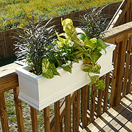 This is a picture of a PVC window box attached to a deck rail that I took on my own deck back in 2008. Flower boxes on rails is a growing trend and there are many ideas to choose from to decorate a rail.